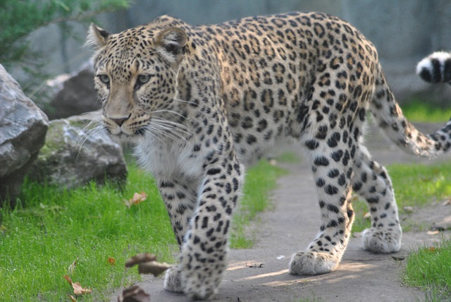 Female Persian Leopard at Allwetterzoo Münster (Germany)